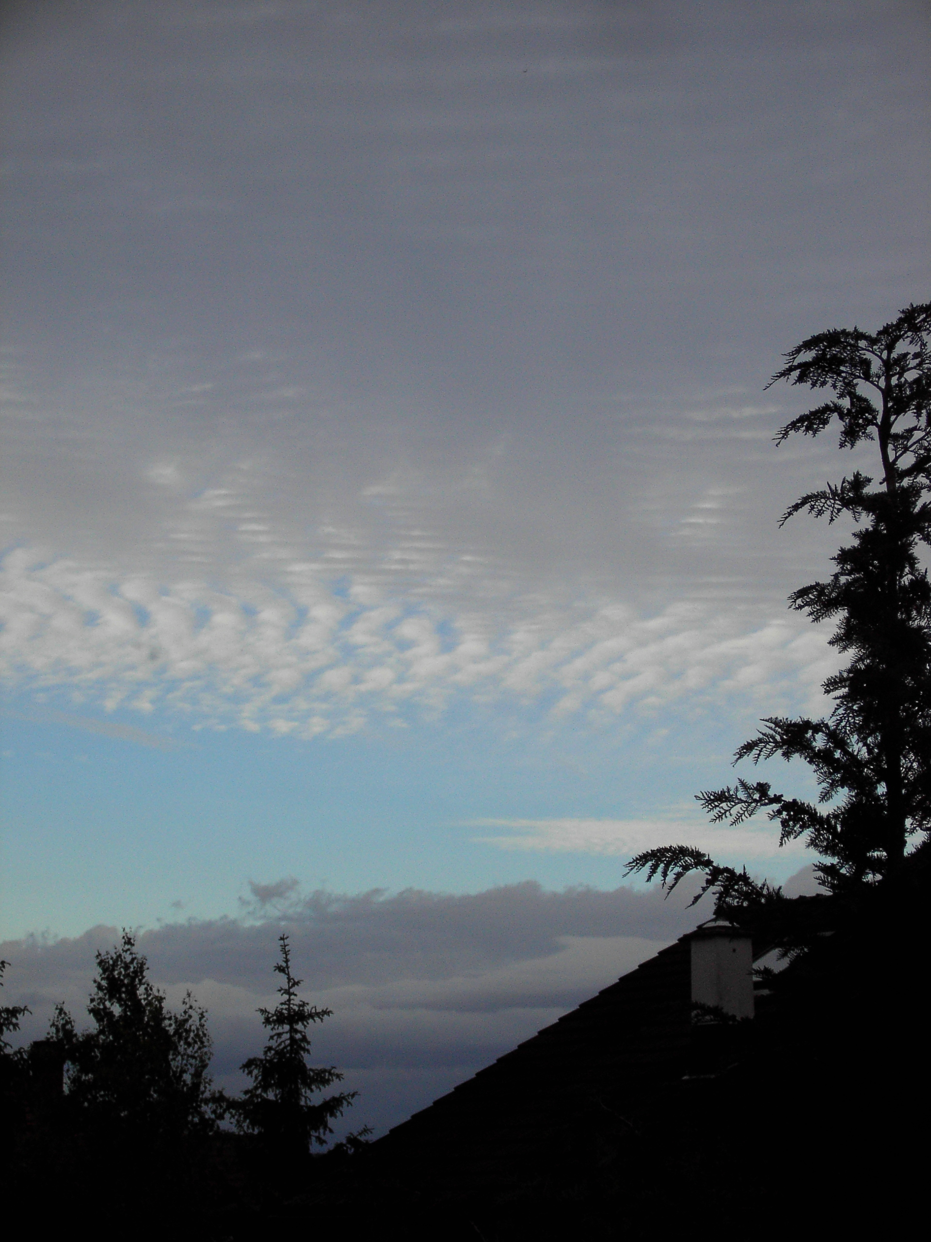 Two-layered (duplicatus) Altocumulus undulatus